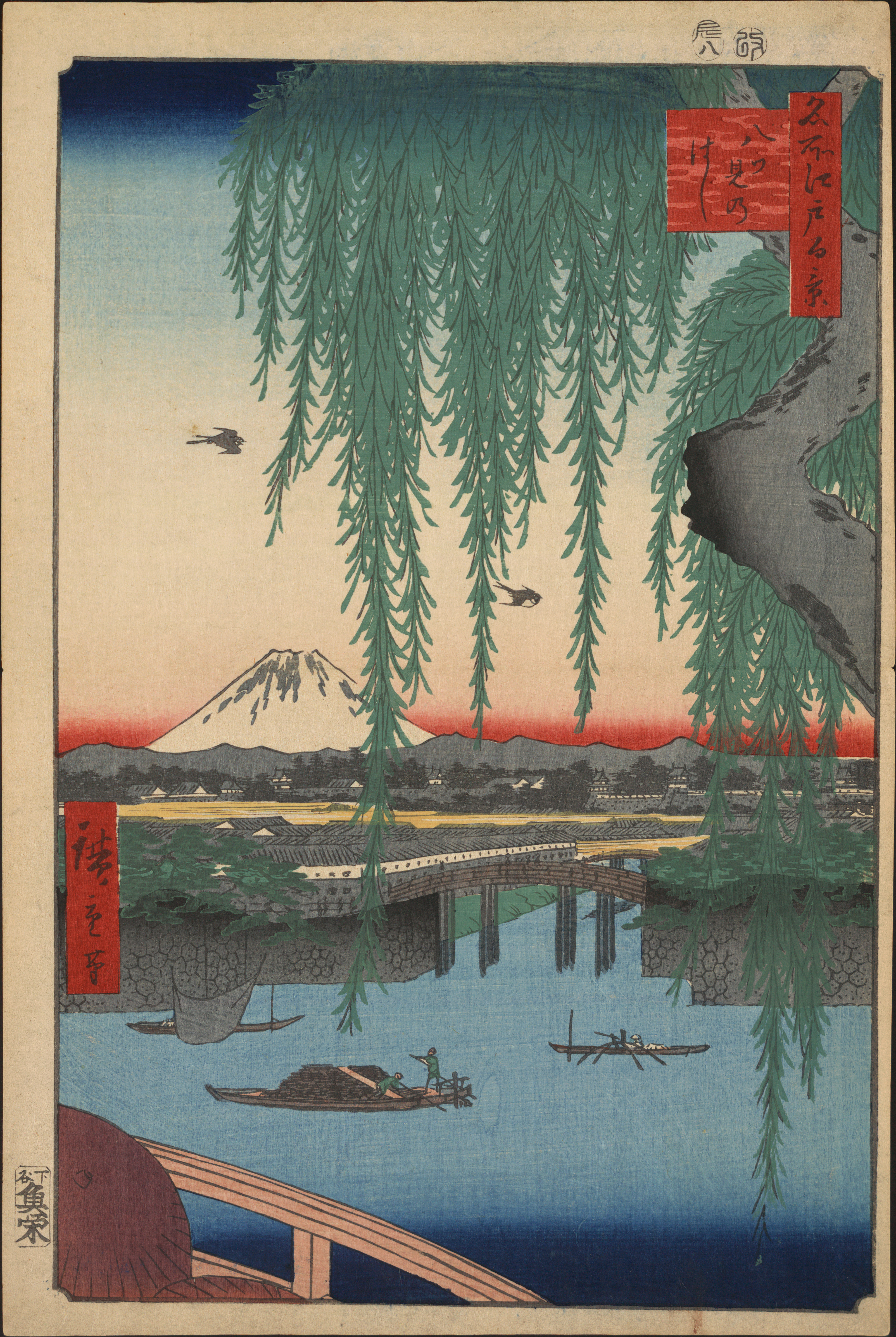 Part of the series One Hundred Famous Views of Edo, no. 045, part 2: Summer.